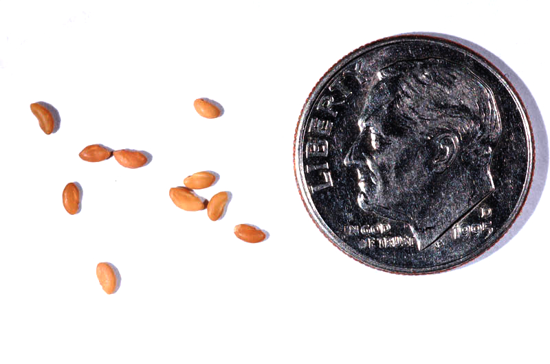 Seeds of Medicago laciniata next to a U.S. dime for scale.